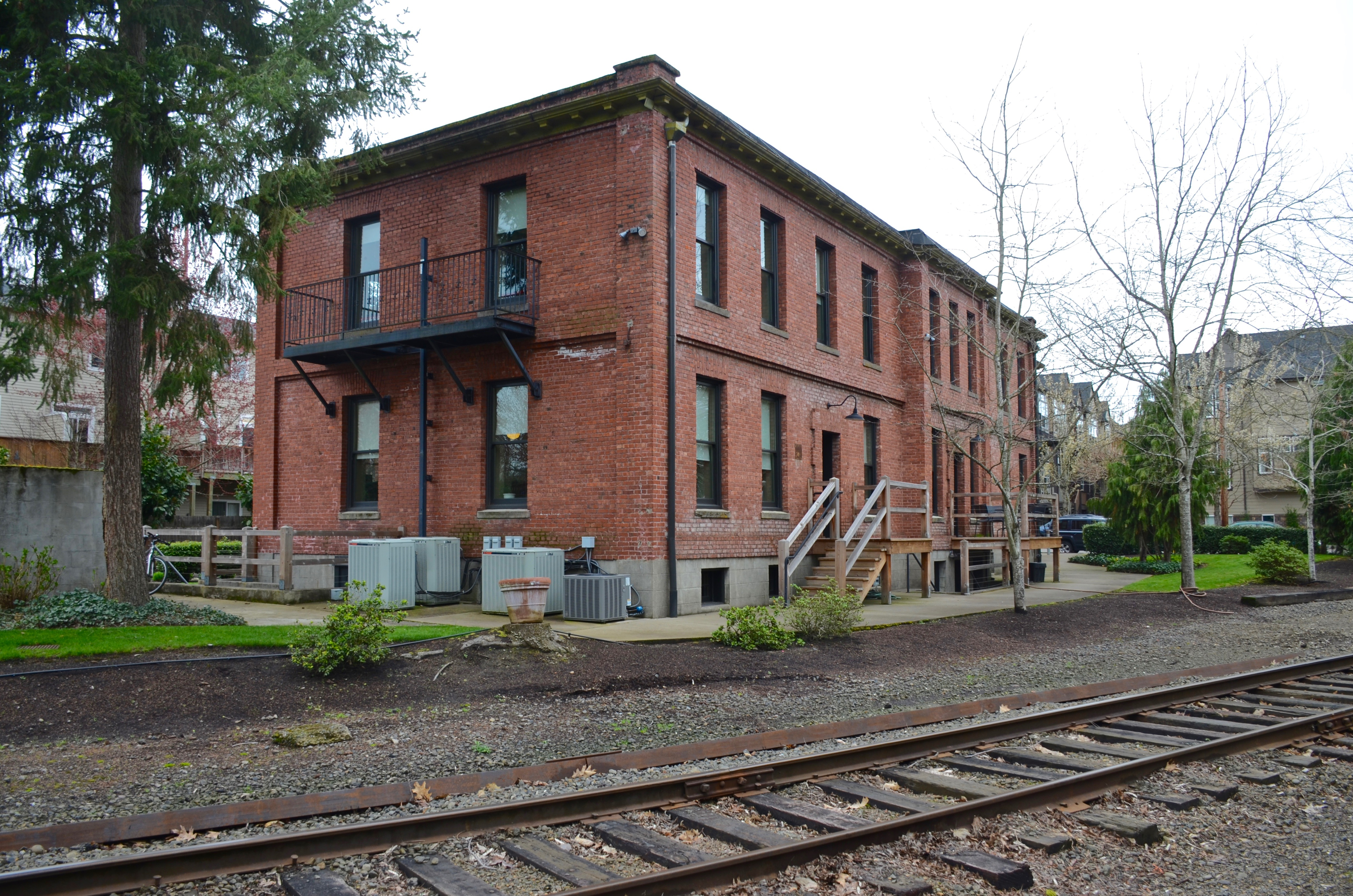 The former Portland Railway, Light & Power Company's Sellwood Division Carbarn Office and Clubhouse, built in 1910 and listed on the National Register of Historic Places. This view from the southwest shows the freight track that still passes the building, track that is now owned by the Oregon Pacific Railroad. During this building's original use, electric interurbans used this track, and other tracks branched off at this location, running on both sides of this building, to reach the Sellwood Carbarn, located on the east side of 11th Avenue.